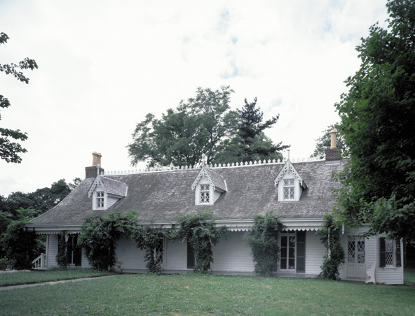 Alice Austen House on Staten Island, New York City, New York